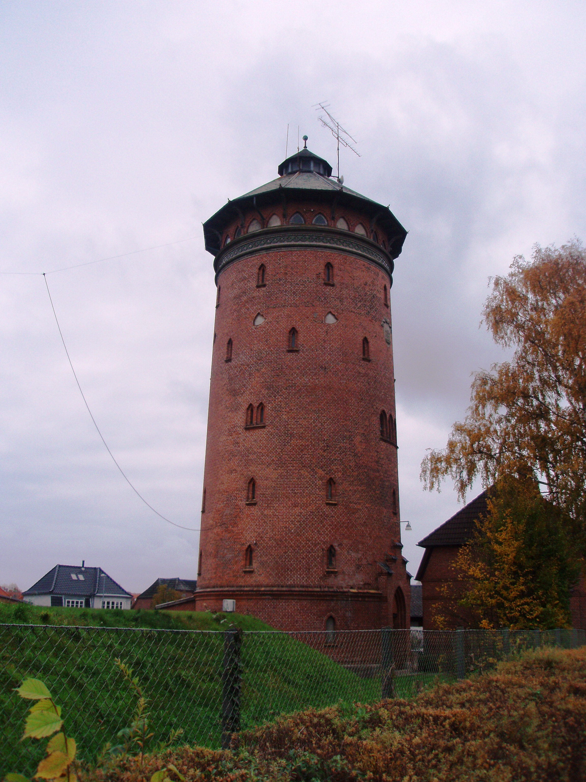 Det gamle vandtårn (Randers)